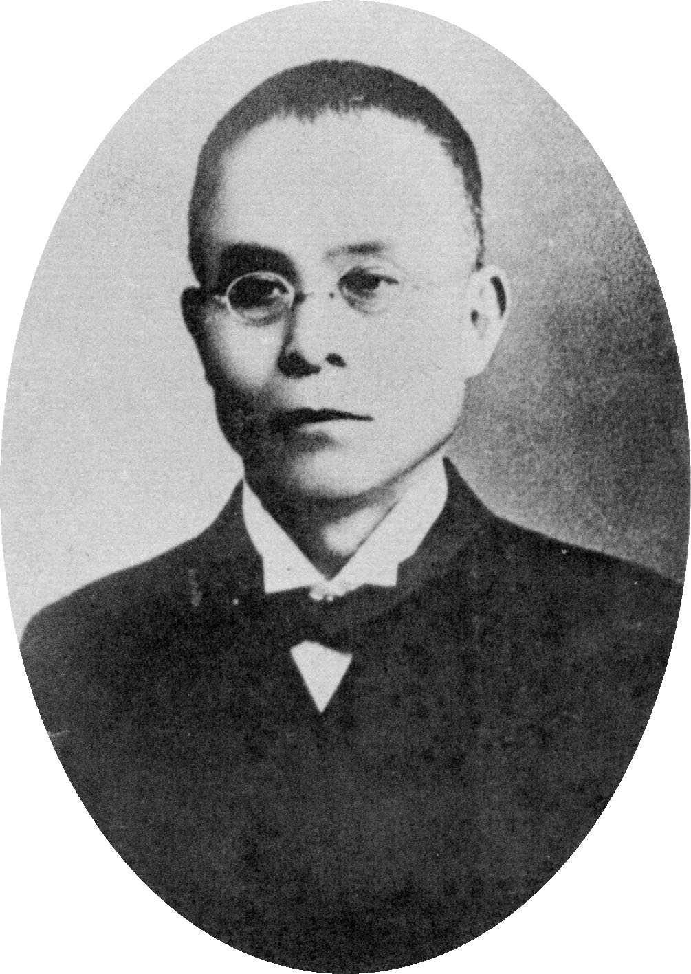 Mr. Naotarō Masaki.